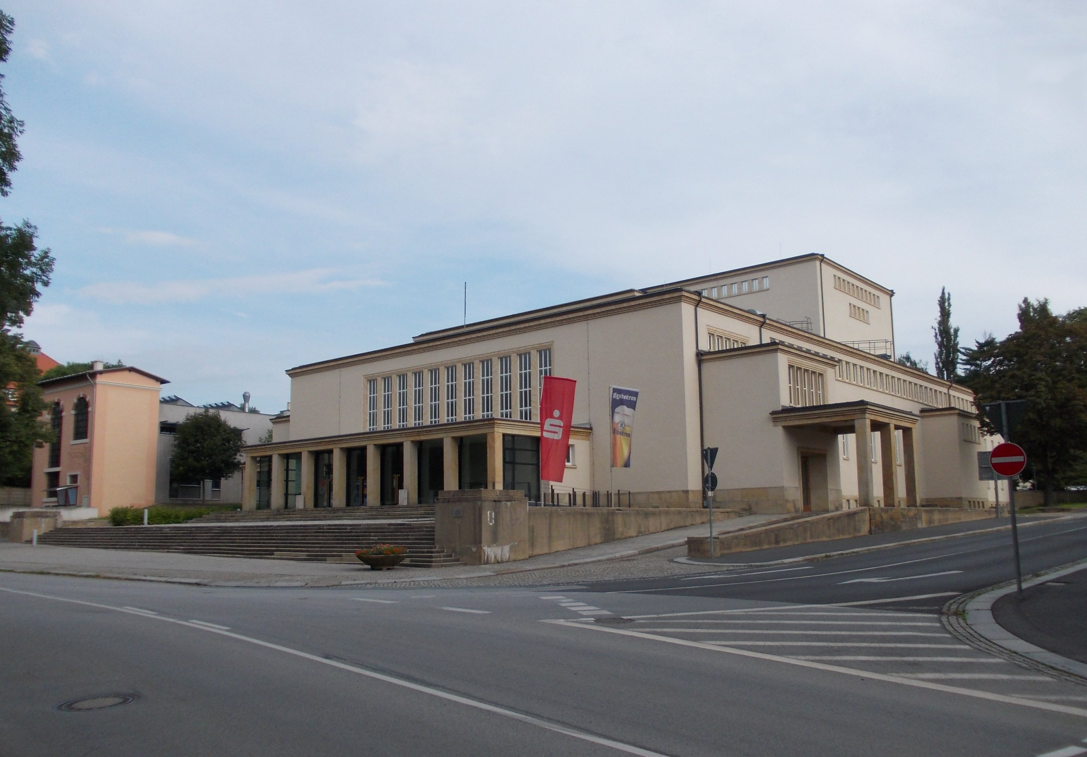 Theatre in Zittau (Görlitz district, Saxony), part of Gerhart Hauptmann Theatre Görlitz-Zittau